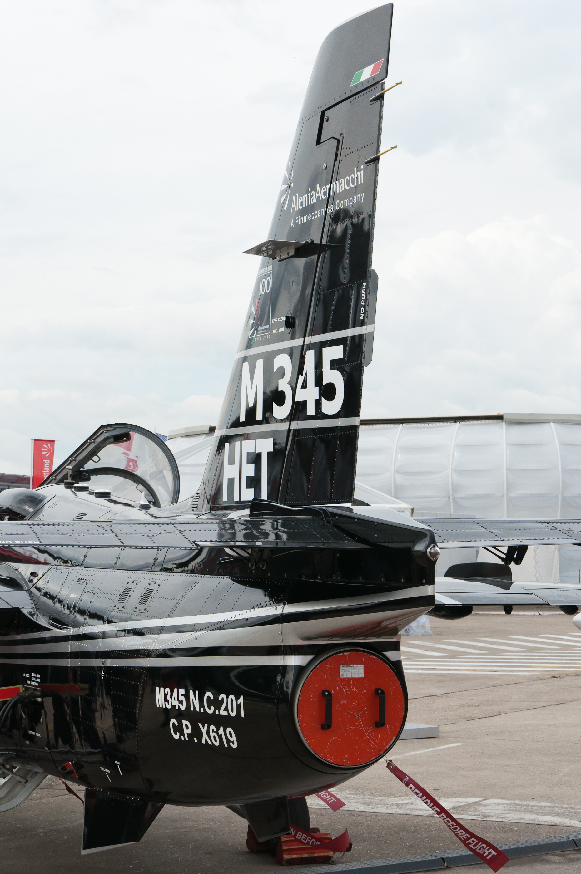 Alenia Aermacchi M-345 (reg. CPX619, c/n 201) at Paris Air Show 2013.